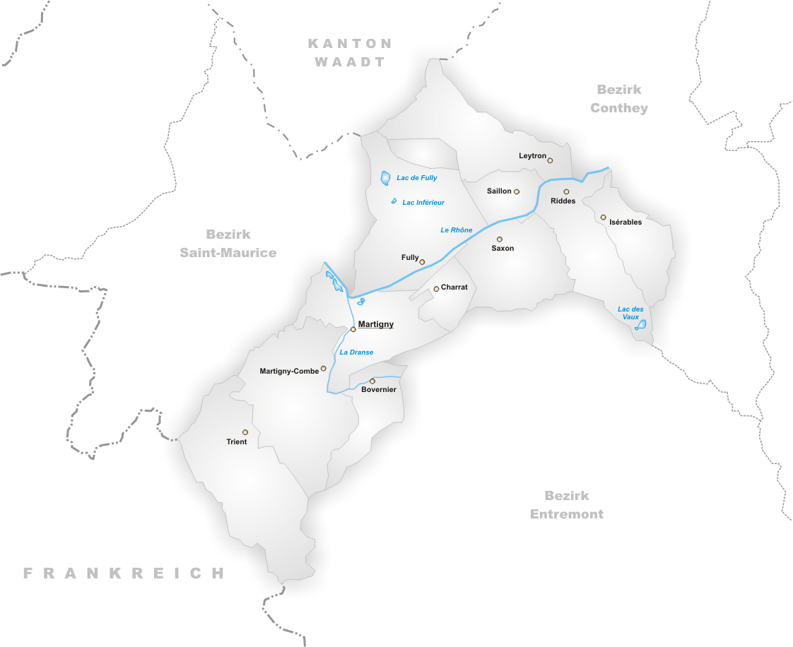 Municipalities of District Martigny